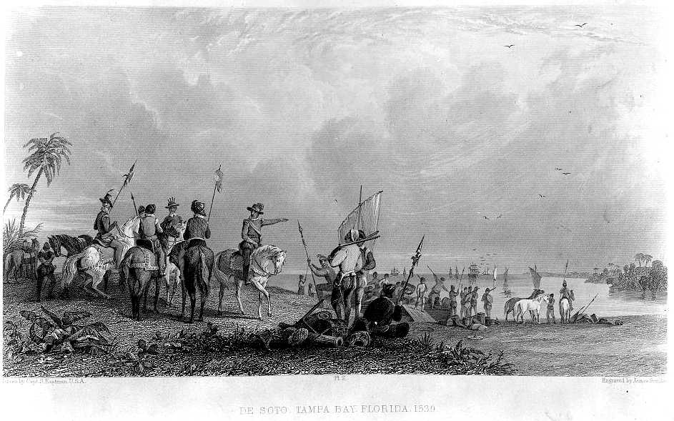 Downloaded from TITLE: De Soto -- Tampa Bay, Florida--1539 / Drawn by Capt. S. Eastman, U.S.A. ; Engraved by James Simillie. CALL NUMBER: Illus. in E77 .S382 [Microfilm RR] REPRODUCTION NUMBER: LC-USZ62-3034 (b&w film copy neg.) RIGHTS INFORMATION: No known restrictions on publication. SUMMARY: Print shows Hernando De Sota and other soldiers at Tampa Bay. MEDIUM: 1 print : engraving. CREATED/PUBLISHED: 1853. CREATOR: Smillie, James, 1807-1885, engraver. RELATED NAMES: Eastman, Seth, 1808-1875, artist. NOTES: Illus. in: Information respecting the history, condition and prospects of the Indian tribes of the United States / Henry R. Schoolcraft. Philadelphia : Lippincott, Grambo, 1853, pl. 2.